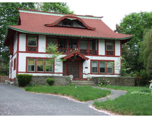 Designed by famous Architect Ralph Adams Cram circa 1890